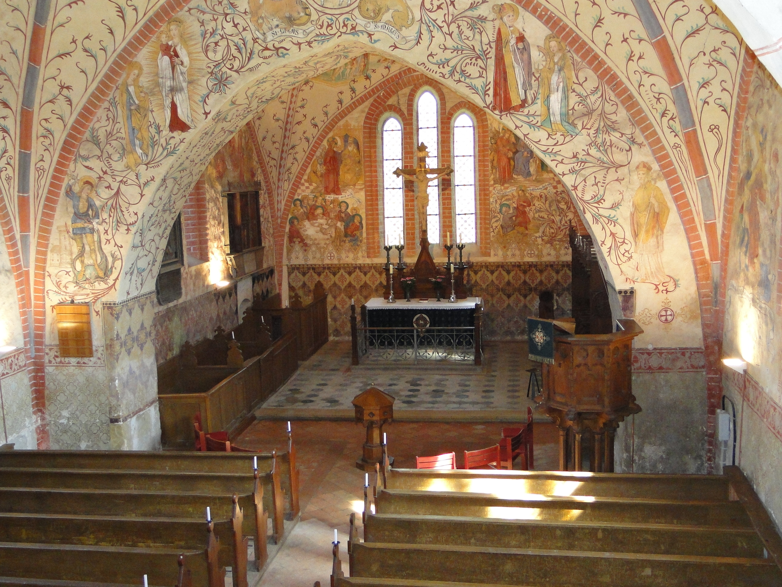 Church in Lohmen, district Güstrow, Mecklenburg-Vorpommern, Germany